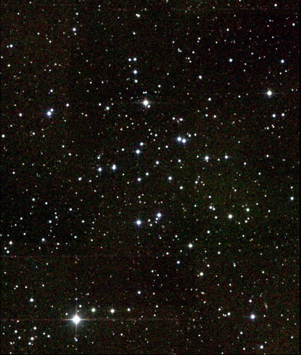 Photograph from the Two Micron All-Sky Survey (2MASS) of Messier 34 (also known as M 34 or NGC 1039), an open cluster in the constellation Perseus.